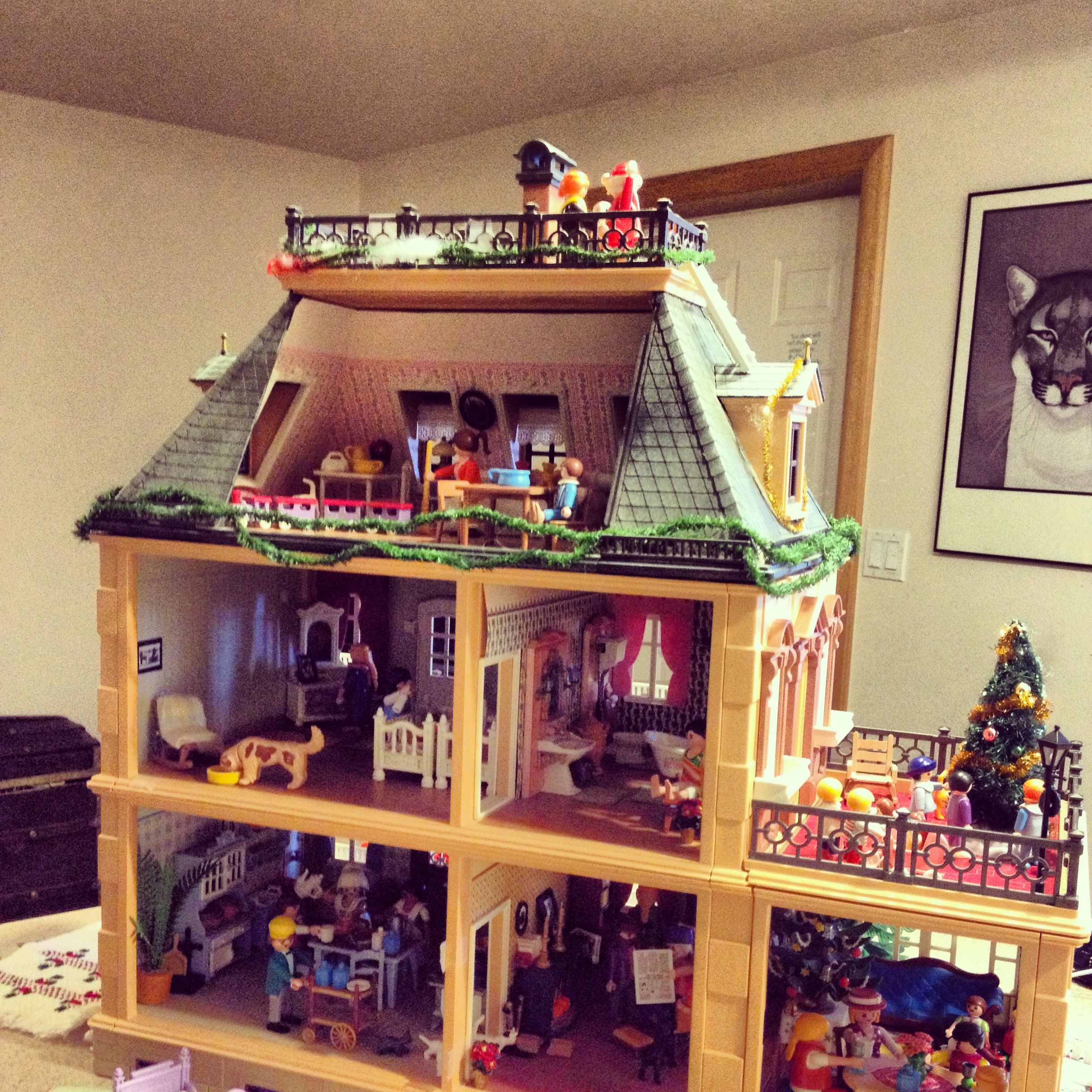 doll house